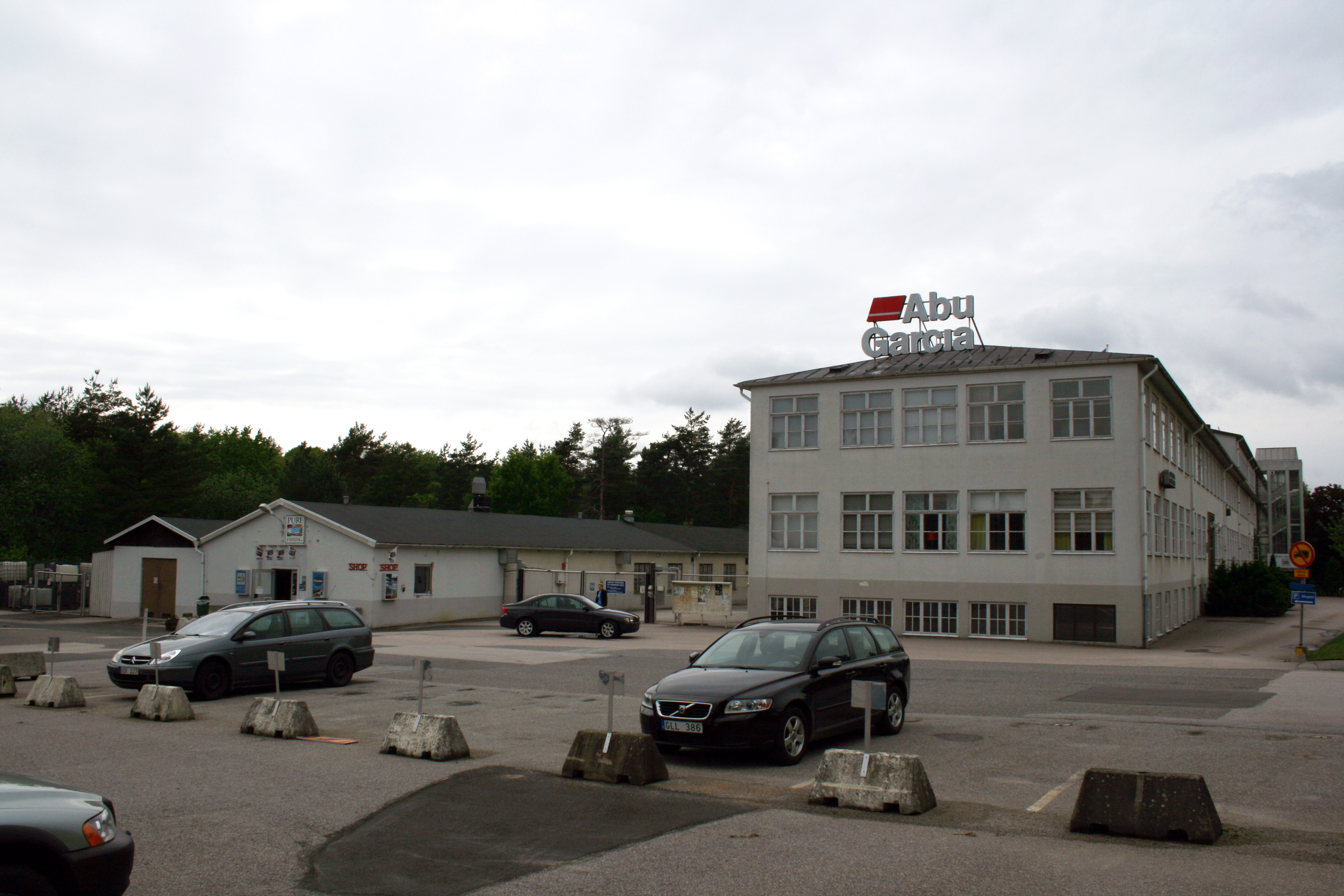 ABU-Garcia, Svängsta, Sweden